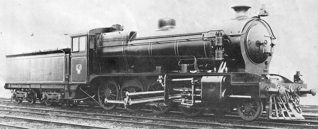 Victorian Railways' photograph of 2-8-0 C class heavy goods locomotive No. 1, as finished in Canadian Red livery.